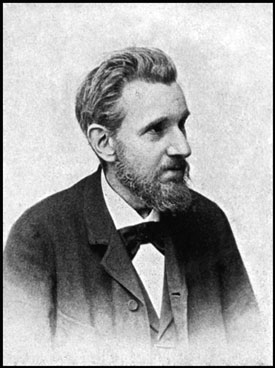 Václav Fric (1839-1916) Czech naturalist and natural history dealer.